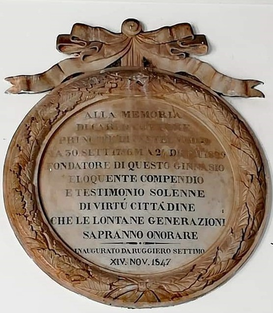 Commemorative plaque for the opening of the Agrarian Institute (1847)